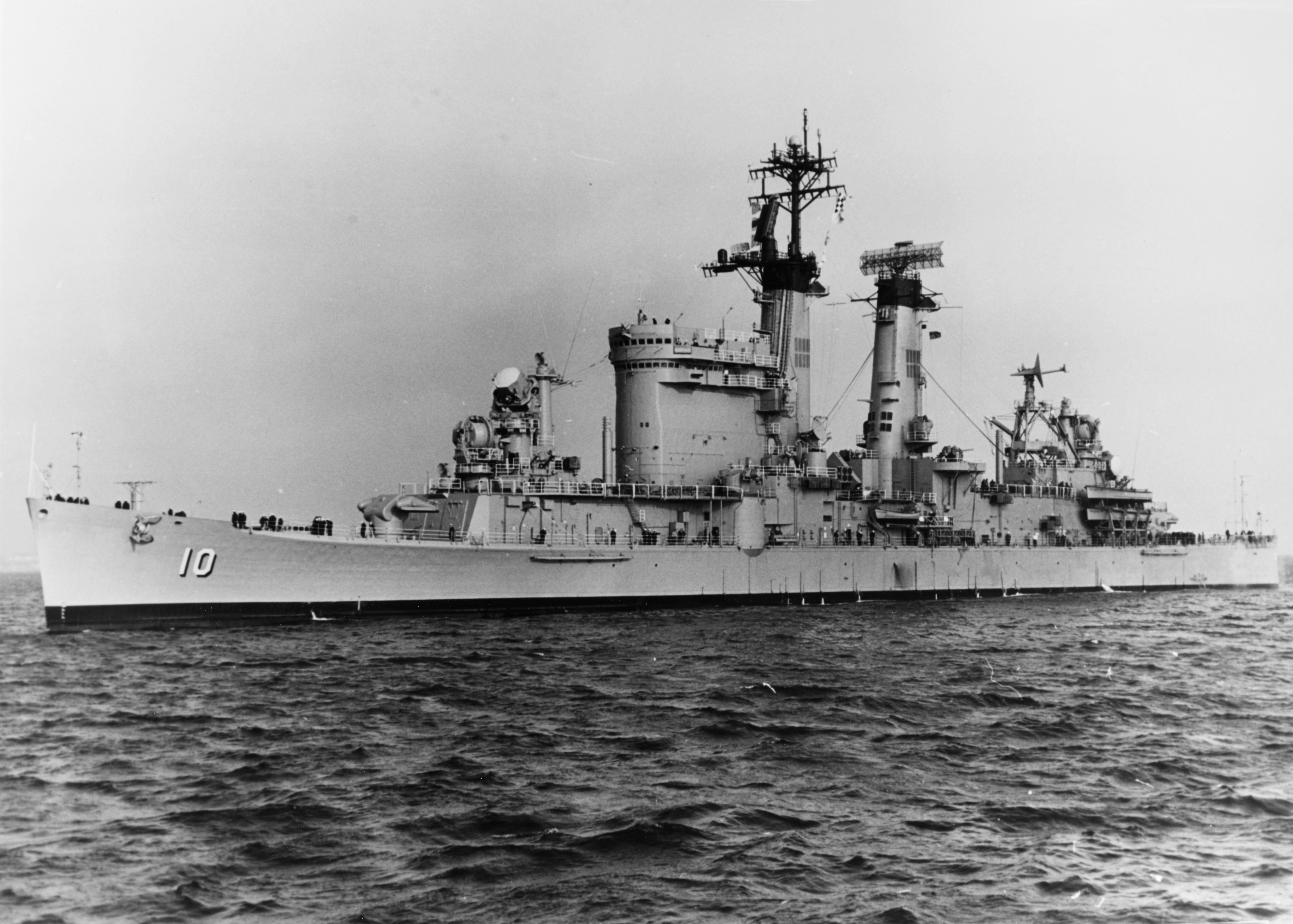 The U.S. Navy guided missile cruiser USS Albany (CG-10) in Boston harbour, Massachusetts (USA), 26 November 1968.